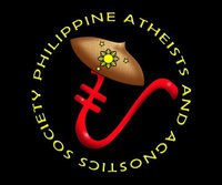 the PATAS badge